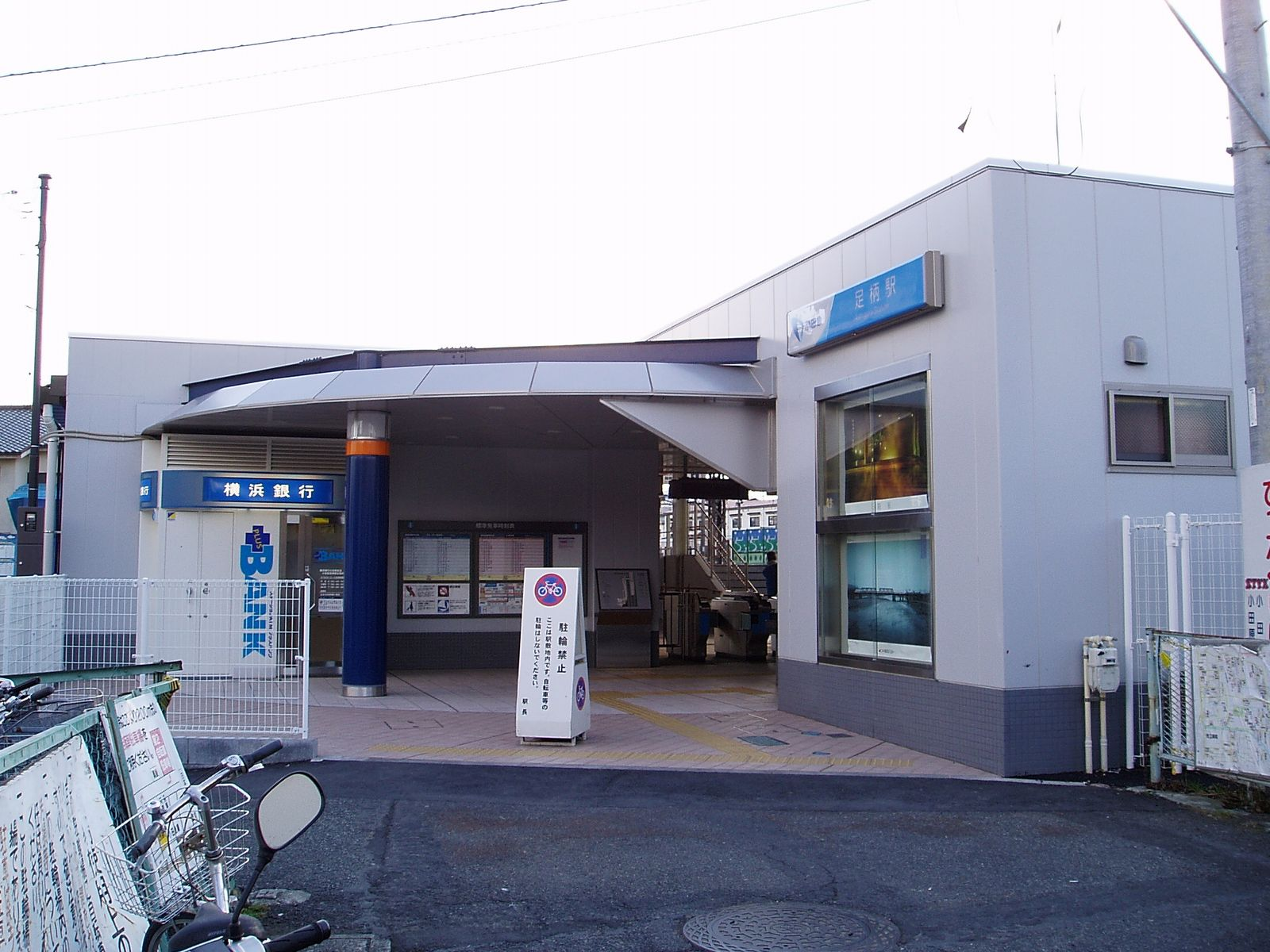 Odakyu Ashigara Sta.